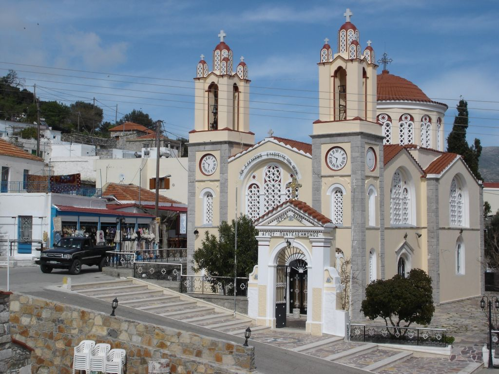 Siana, Rhodes, Church of Saint Pantaleon